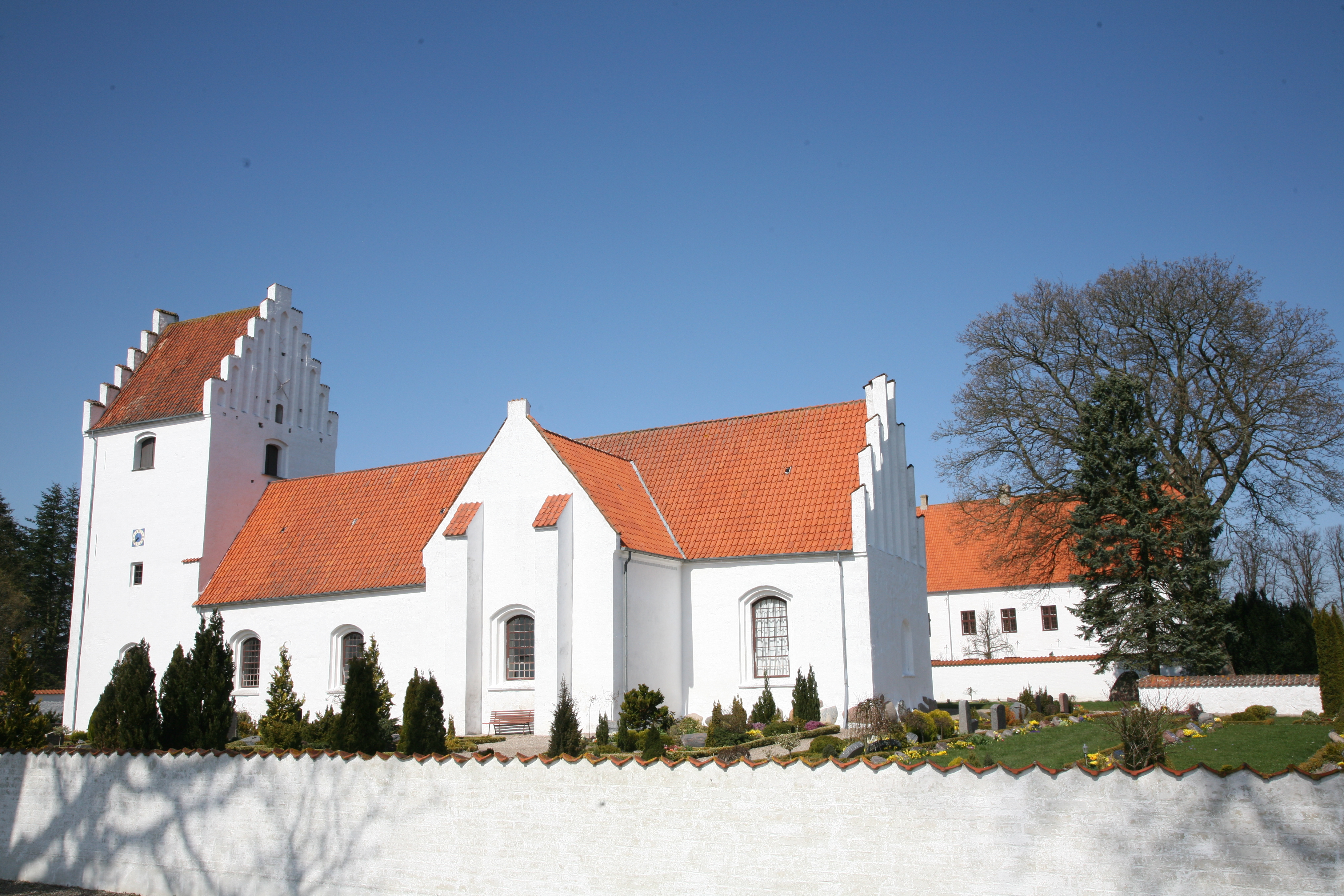 Fyrendal church in Denmark